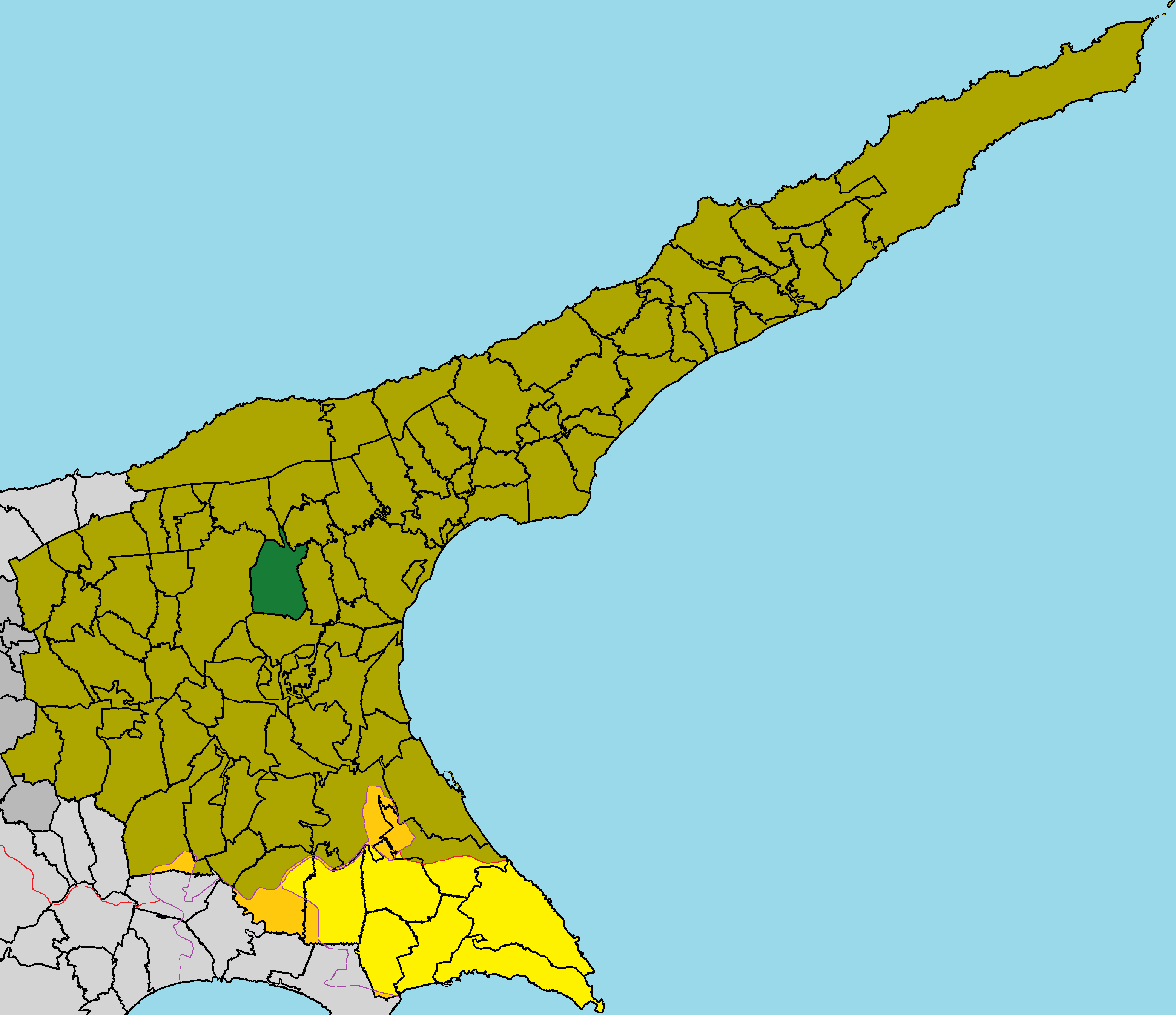 Gypsou in Famagusta District (de jure).